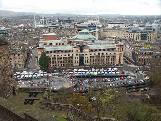 Saltire Court, Castle Terrace A host of investment companies, legal and accountancy firms occupy this 1991 development on Castle terrace designed by architects Campbell & Arnott. Castle Terrace NCP car park in the foreground makes for convenient city centre parking but be warned it's never an easy achievement getting out at busy periods. The pay booths have a nasty habit of breaking down and that's when the fun begins. The curved glass fronted building in the background is Scottish Widows plc. The round building (background right) is The Edinburgh International Conference Centre beside the larger complex of Exchange Square.